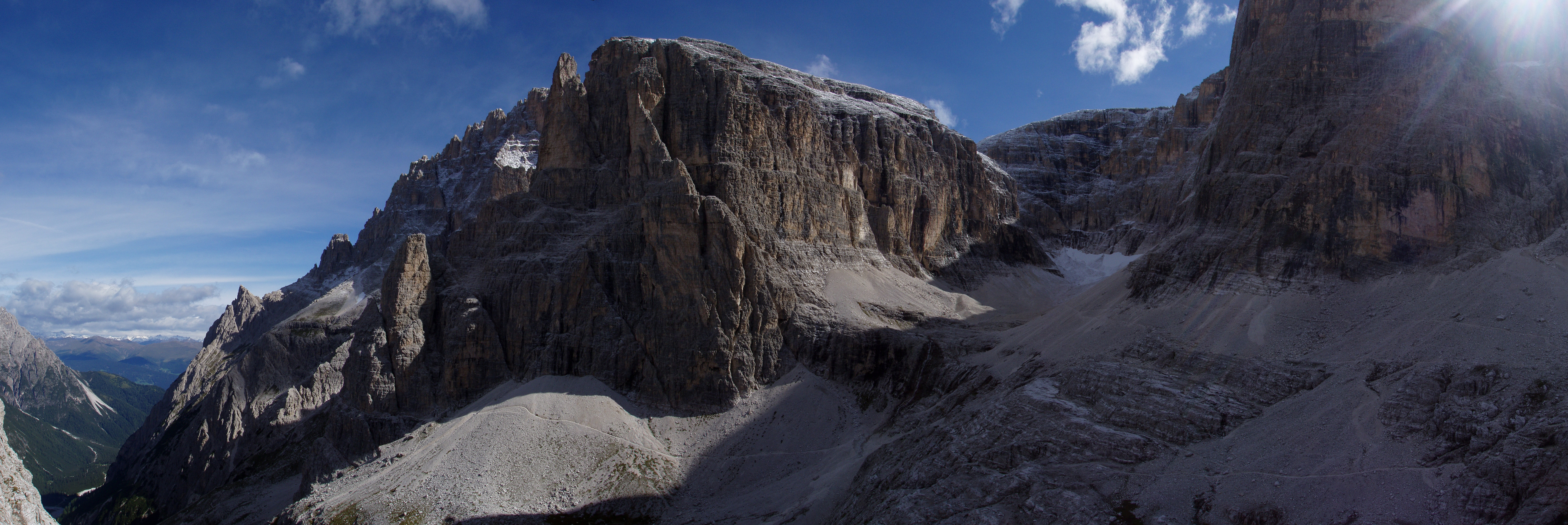 Massif of Elferkofel (Cima Undici) in the Sexten Dolomites (South Tyrol). Panorama is composed of five single photographs. Photos were taken a little bit north of Giralba-Joch on 29.08.2006, ca. 10:18 o'clock. In the foreground one can see the footpath leading to the beginning of the Alpini-Steig, a well-known ferrata that leads from around the sunlit tower called La Spada (2526 m) in the center of the picture's left half to the notch Elferscharte (Forc. Undici) in the crest to the left. The main summit of Elferkofel, 3092 m, is hidden behind La Mitria, 2788 m. The mountain behind the snowfield is Hochbrunner Schneid (Monte Popera), 3046 m. The coombes name is Inneres Loch (Busa di Dentro).